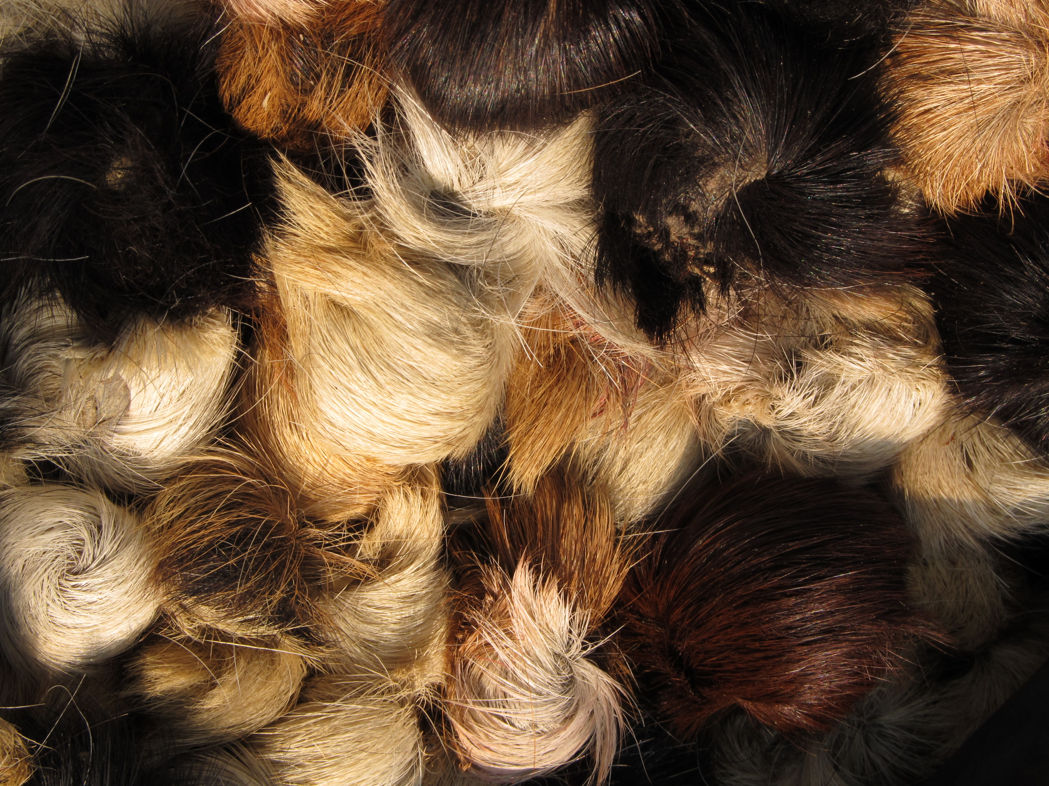 Photographed at Kolkata.